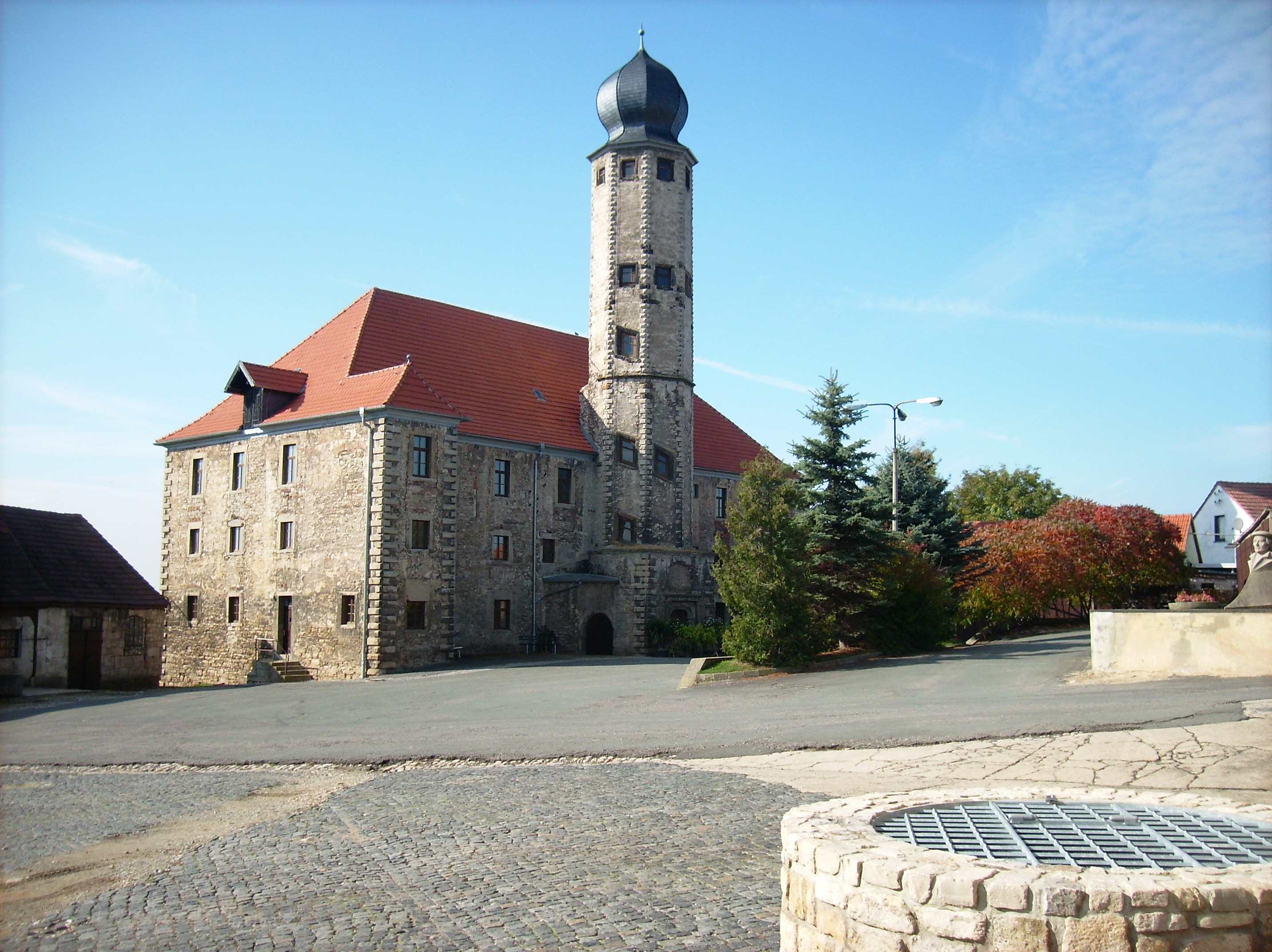 Frauenpriessnitz Castle (district of Saale-Holzland-Kreis, Thuringia)